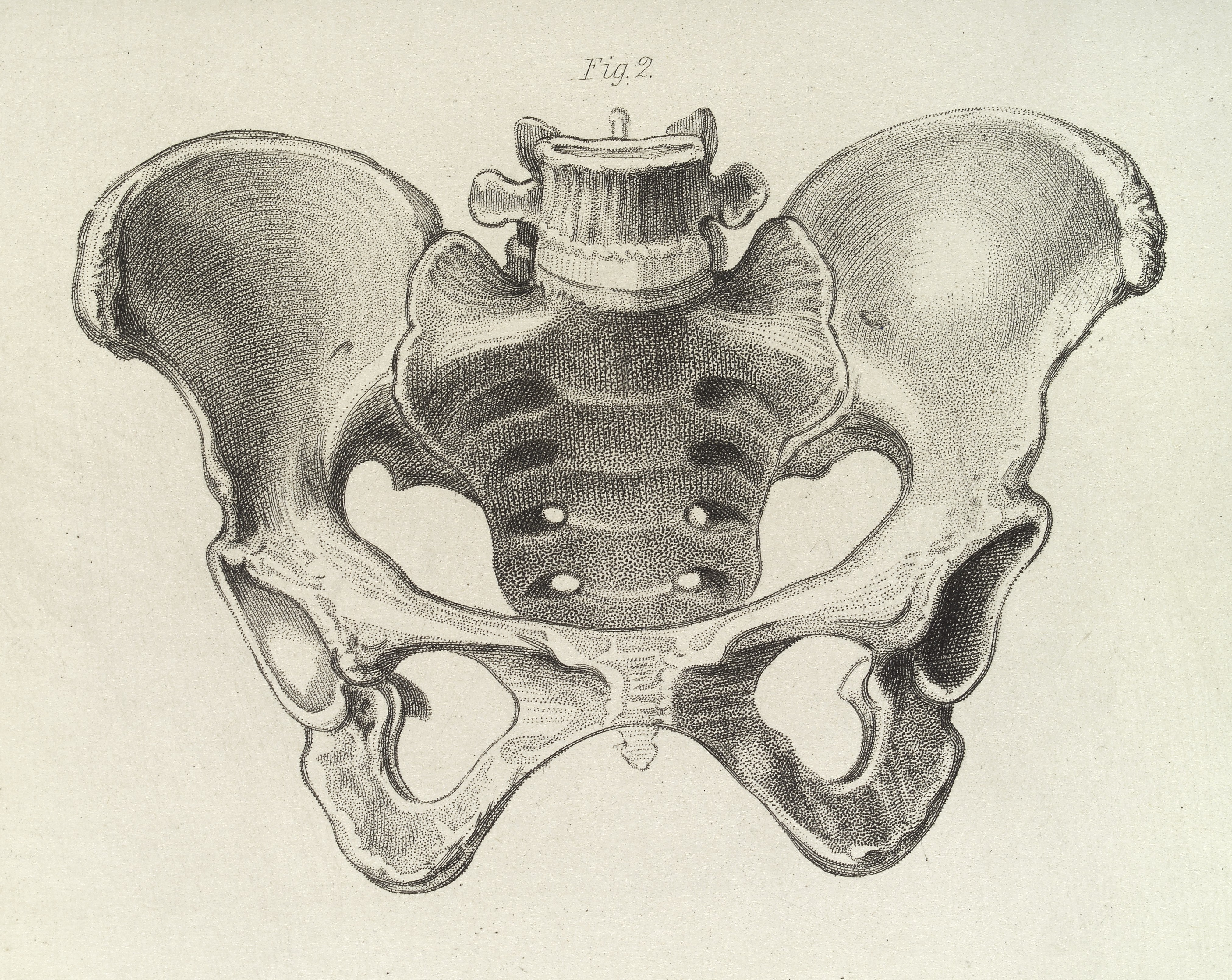 Engraving of the female pelvis taken from an obstetrical book. General Collections Keywords: Skeleton; Parturition; Spine; Bone and Bones; Obstetrics; Pelvis; Childbirth; Bone